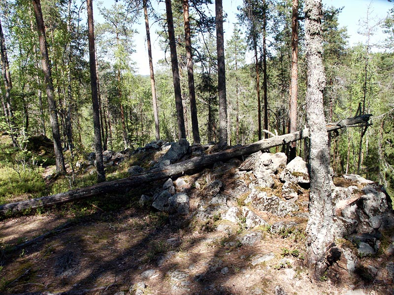 Defensive wall ruins. Linnavuori (ancient iron age castle site) in Sulkava, Finland.